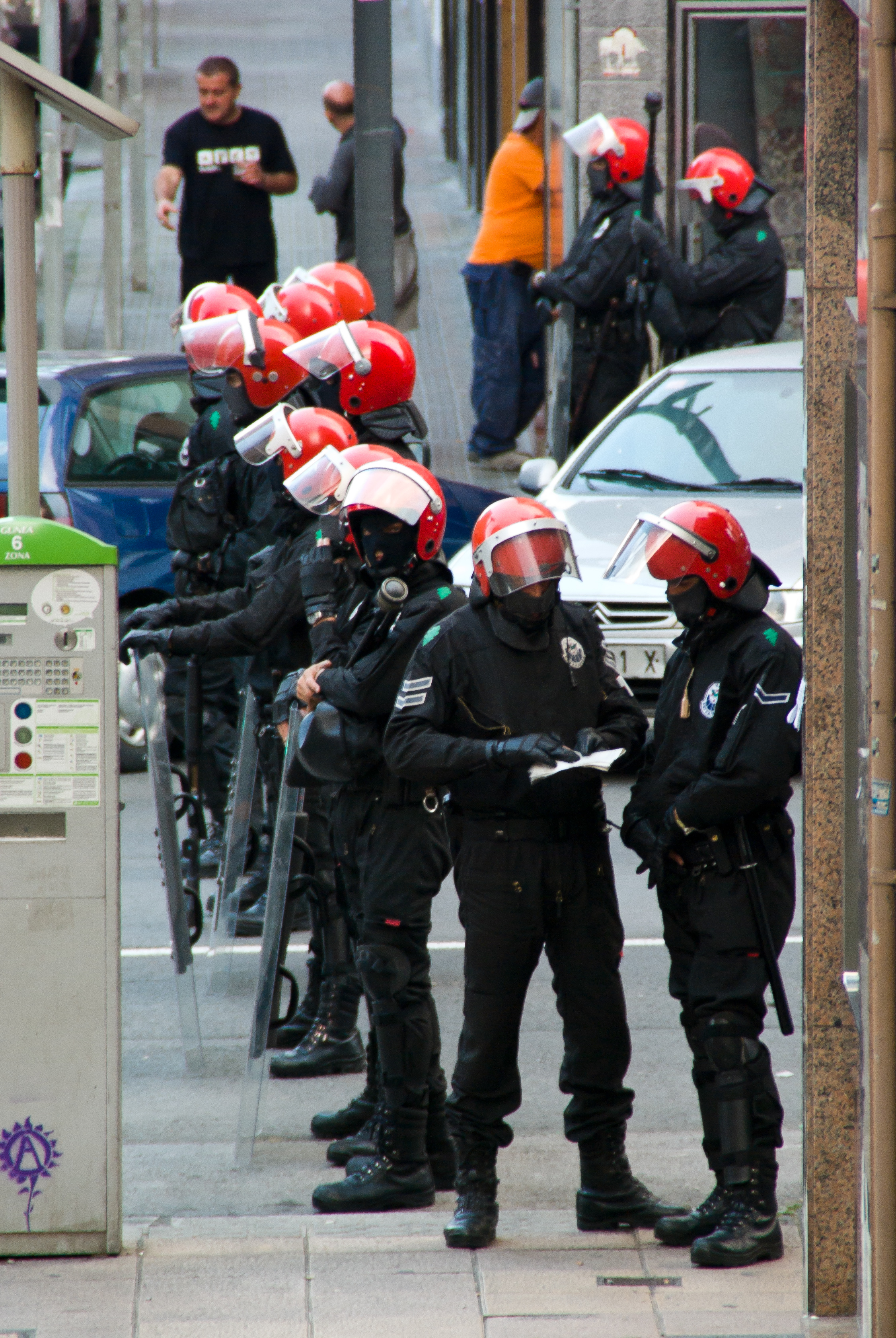 Ertzaintza named police in the vacating of Kukutza.